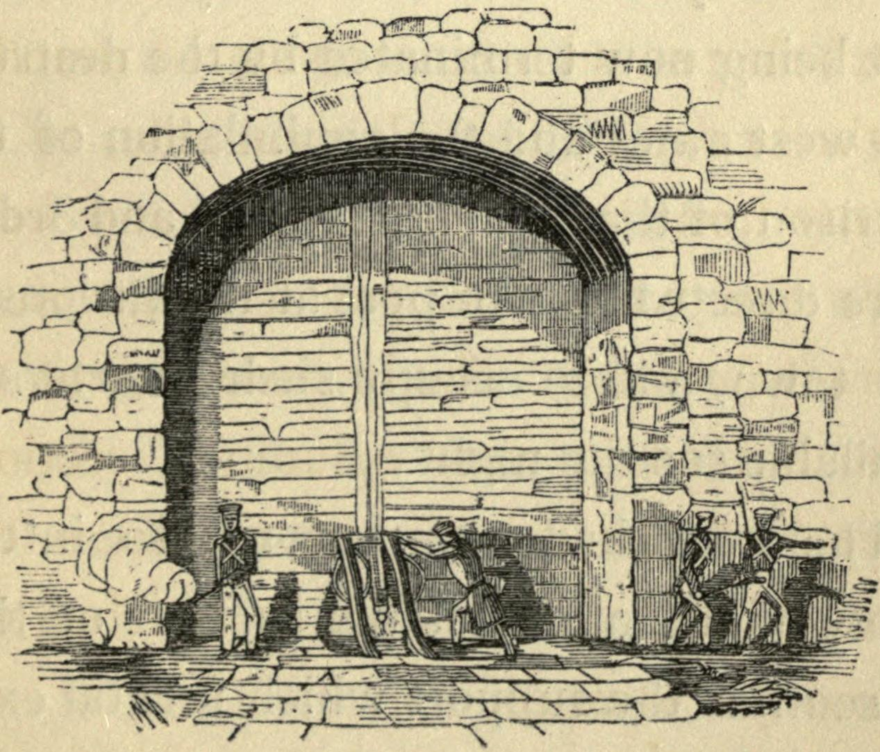 Blowing open the gates of Chin-keang-foo.